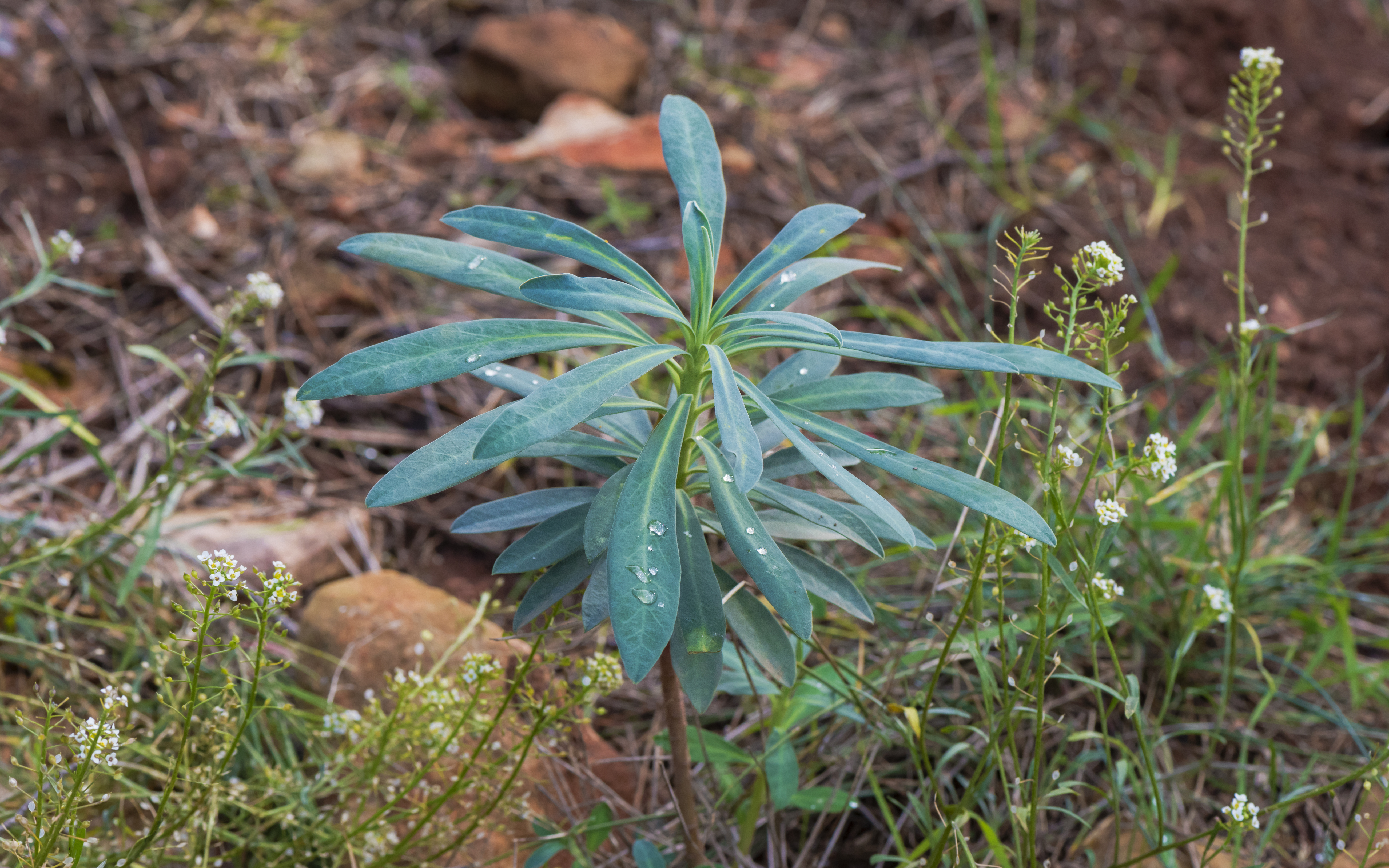 Euphorbia characias ssp. characias (Mediterranean Spurge), evergreen plant with leaves and without its flowers, here in winter.The white flowers all around are Lobularia maritima.This plant have been identified with the help of Éric Pensa here : [2].